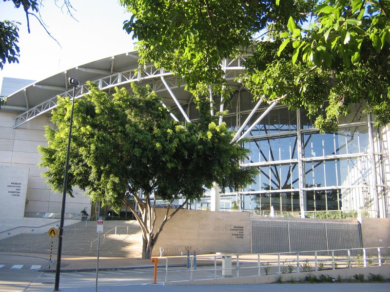 Brisbane Convention Center